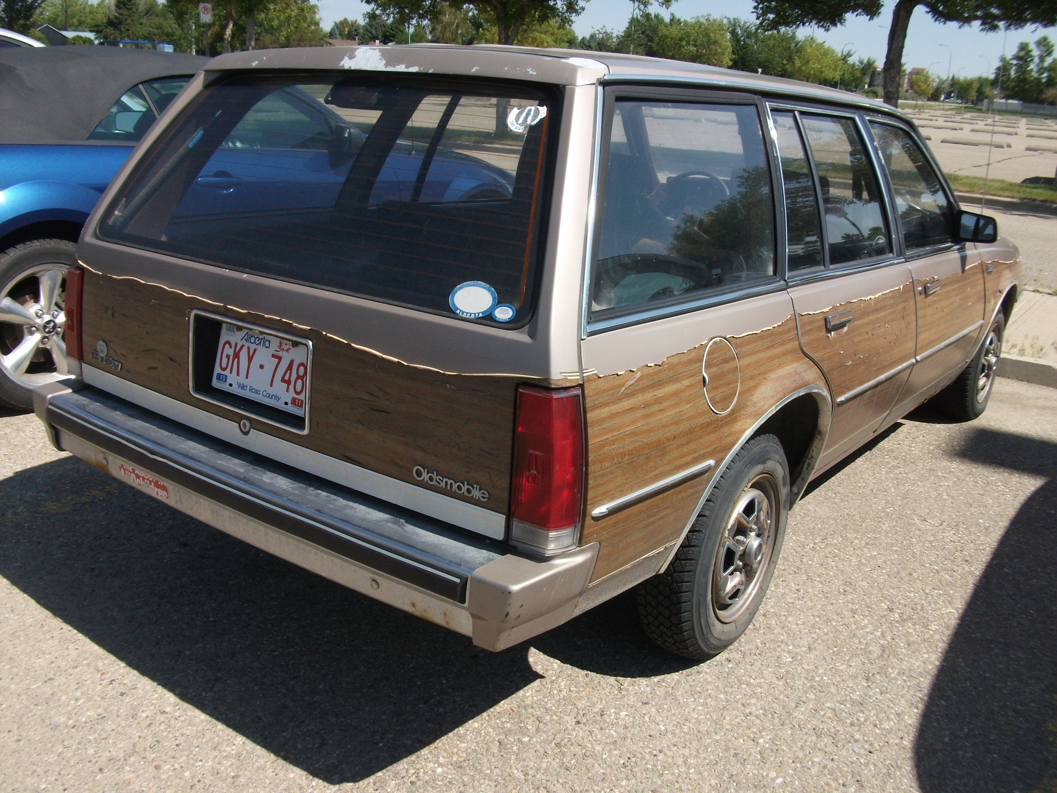 Oldsmobile Firenza Station wagon complete with peeling, fake wood grain sides.